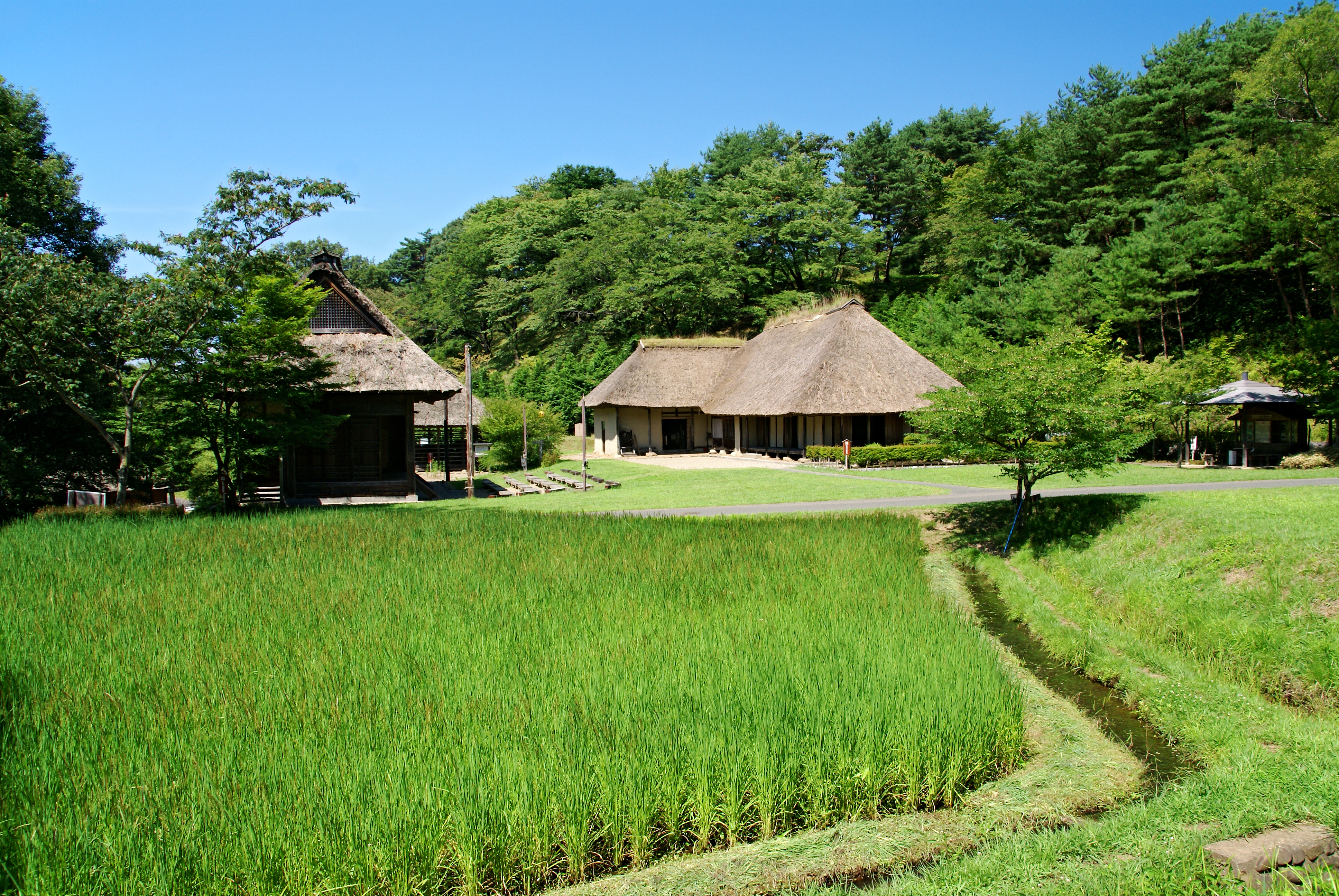 At Michinoku Folk Village in Kitakami, Iwate prefecture, Japan